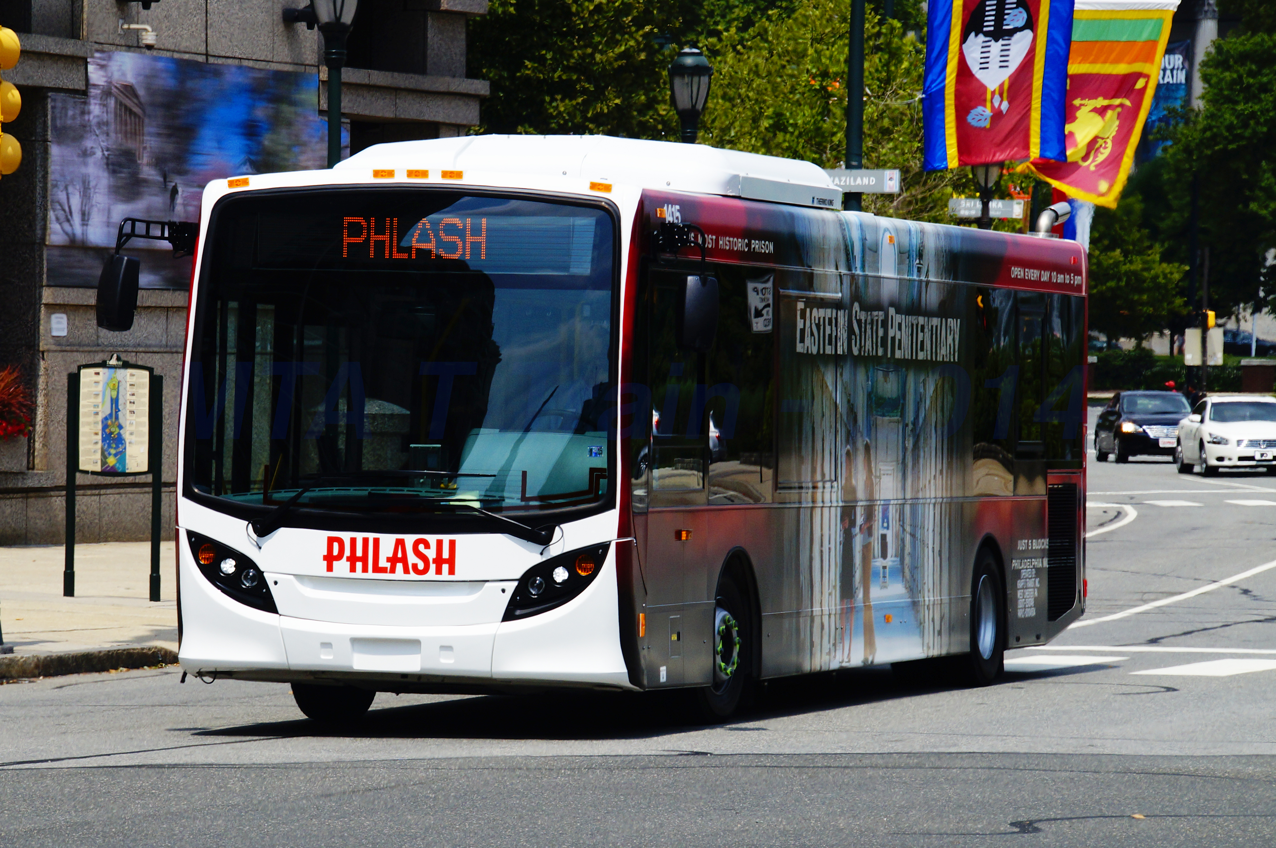 Krapf Bus New Flyer Industries Midi (MD35) 1415 Phlash bus in Philadelphia